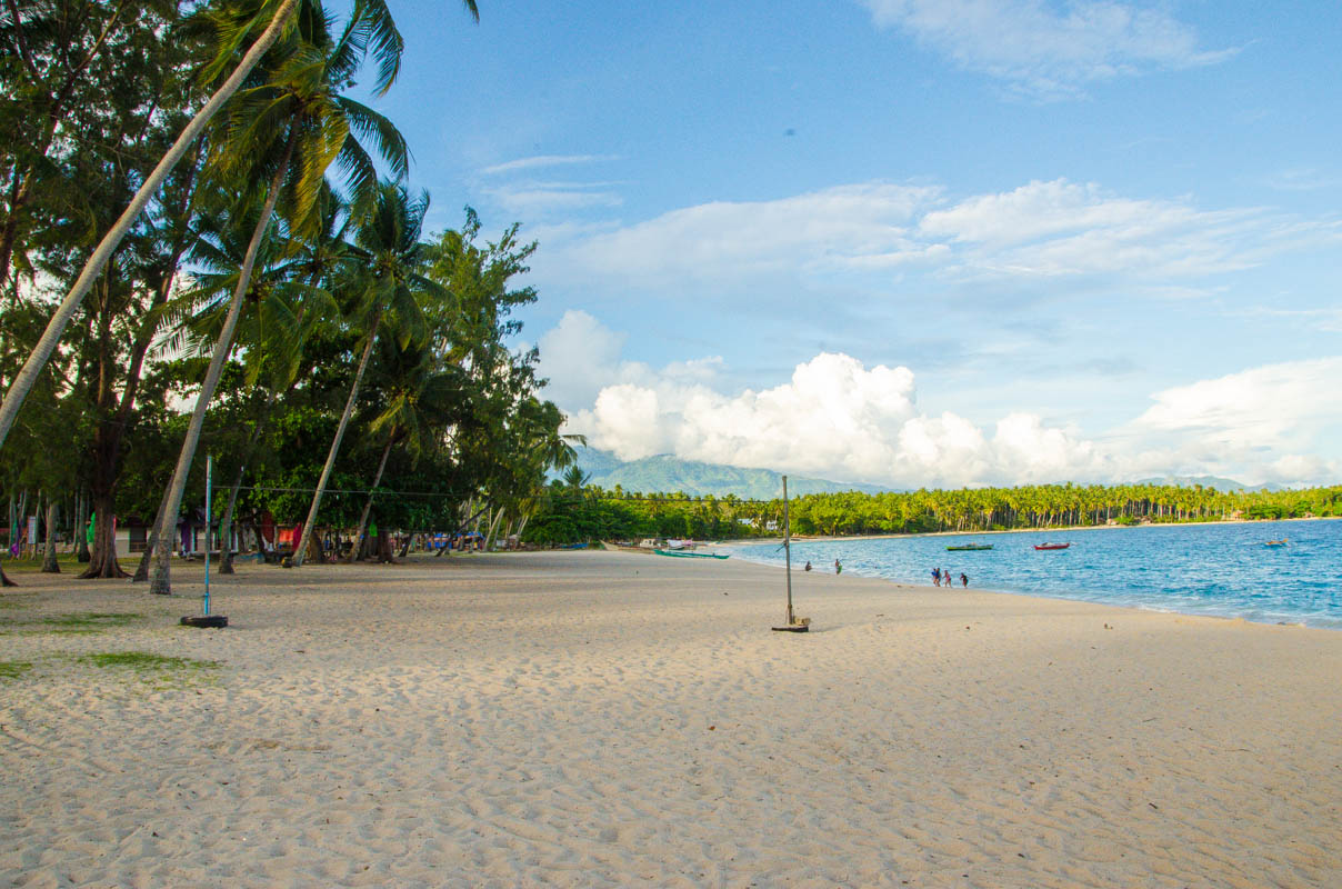 Dahican Beach, Mati City Please feel free to use our photos but a link going to our website is required